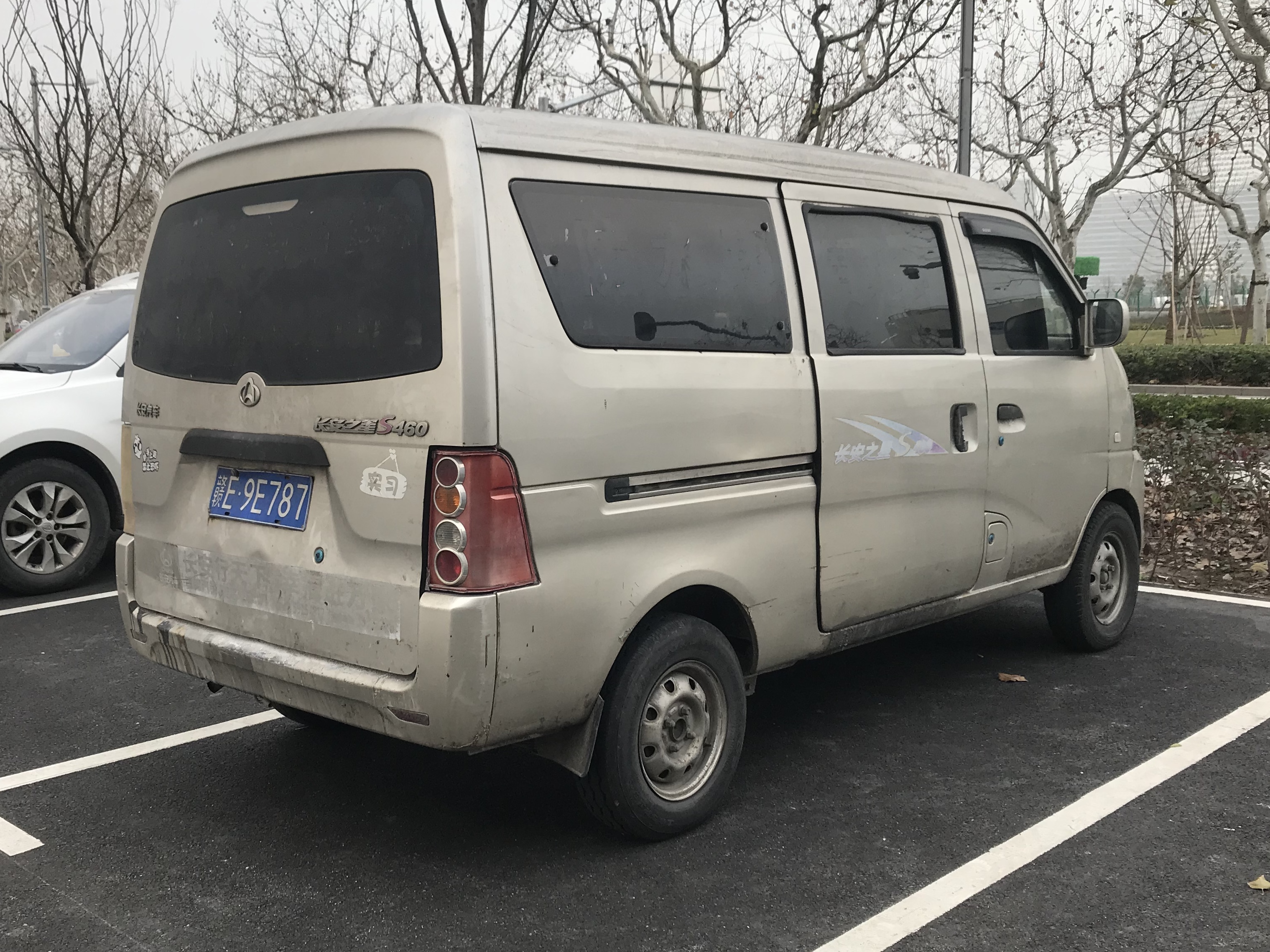 Chana Star S460 rear